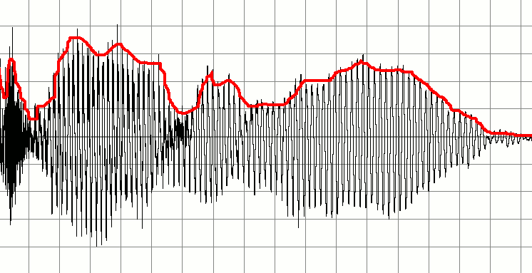 A wavefile in a waveeditor, its envelope marked with a thick red line.